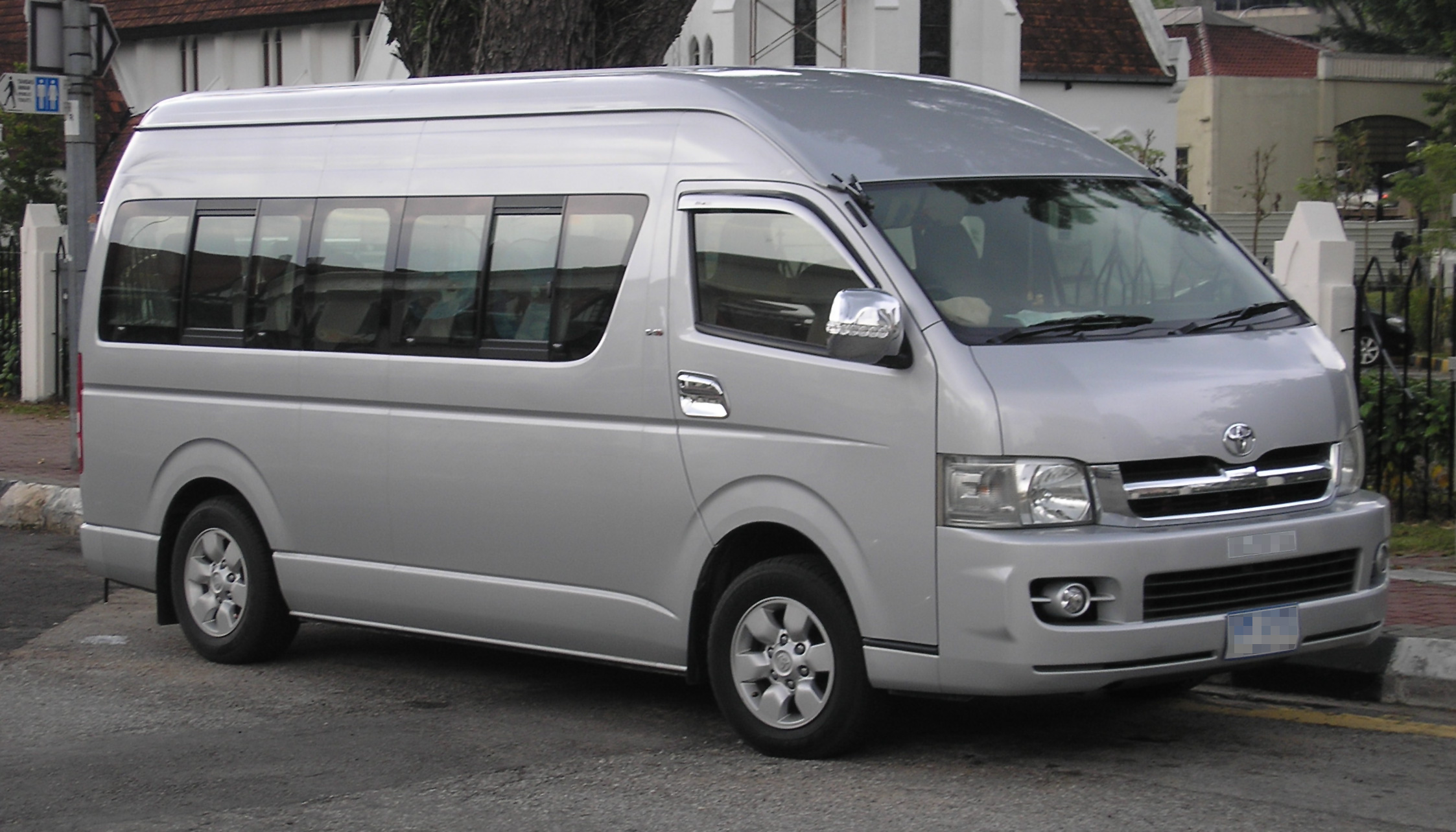 Front quarter view of a fifth generation Toyota Hiace (Grand Cabin) (also labelled as a "Toyota Commuter"), Kuala Lumpur, Malaysia. Bears Thai license plates.